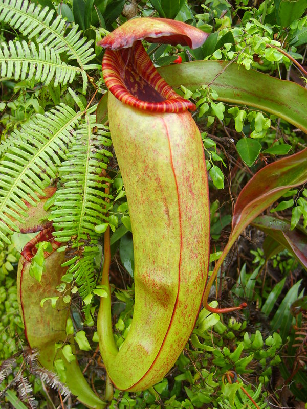 Upper pitcher of Nepenthes bokorensis